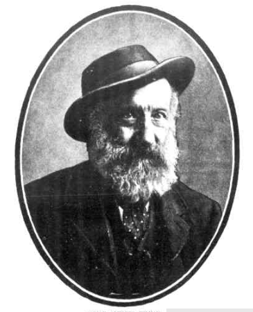 Alberto Zelman Senior (15 November 1874 – 3 March 1927) Italian-Australian composer